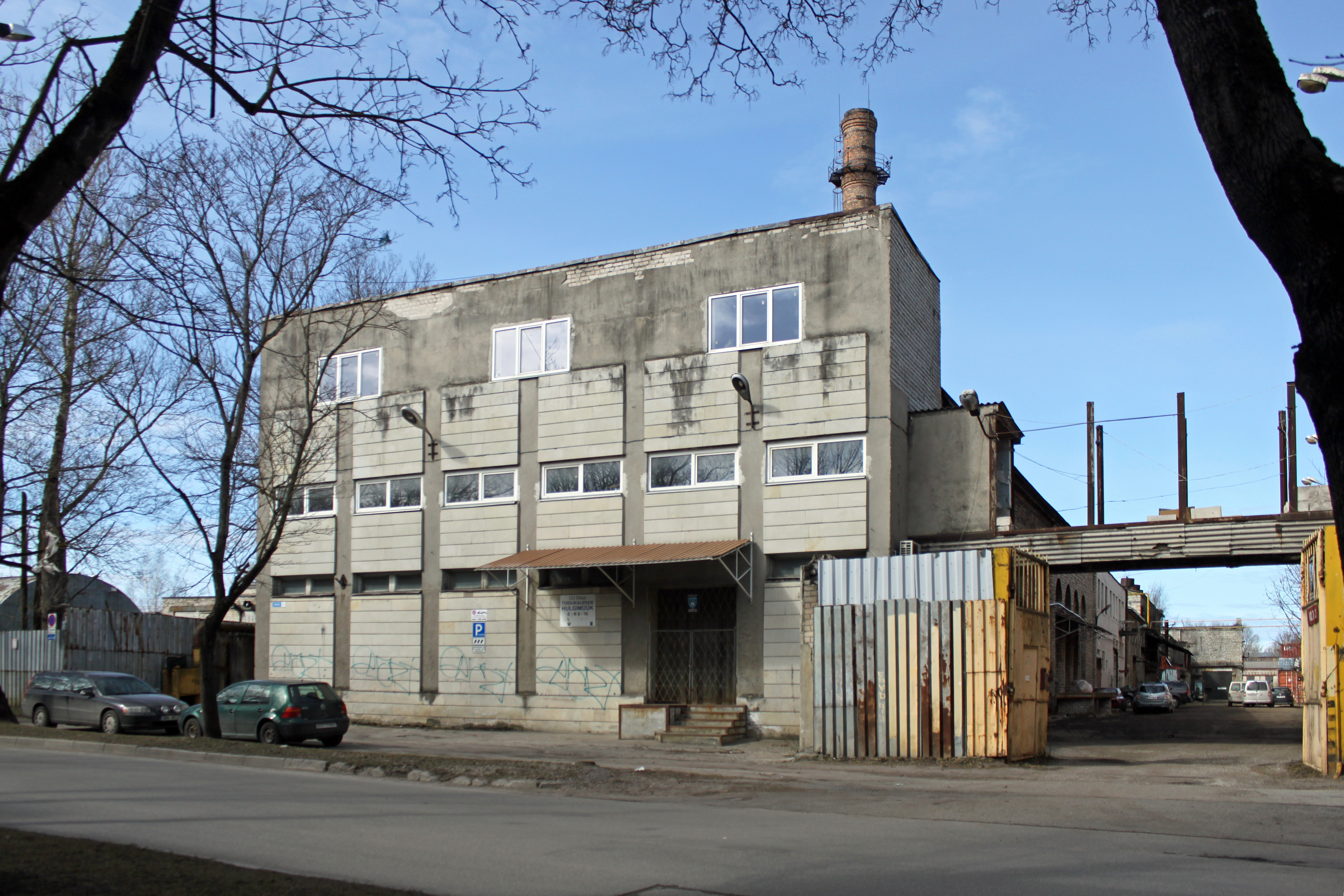 Former canteen of the Volta factory in April of 2017